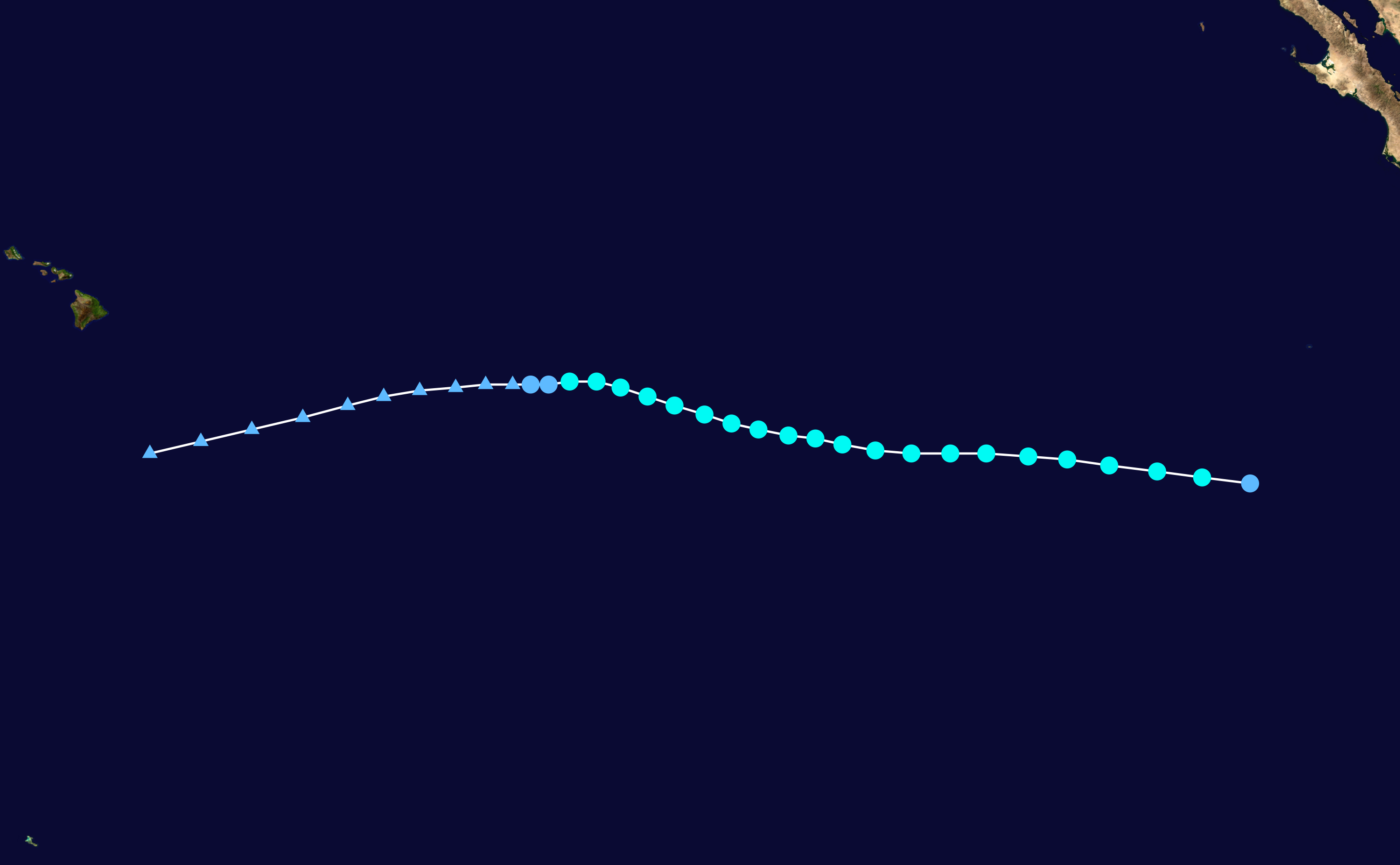 Track map of Tropical Storm Ivette of the 2016 Pacific hurricane season. The points show the location of the storm at 6-hour intervals. The colour represents the storm's maximum sustained wind speeds as classified in the Saffir–Simpson scale (see below), and the shape of the data points represent the nature of the storm, according to the legend below. Saffir–Simpson scale Tropical depression≤38 mph≤62 km/h Category 3111–129 mph178–208 km/h Tropical storm39–73 mph63–118 km/h Category 4130–156 mph209–251 km/h Category 174–95 mph119–153 km/h Category 5≥157 mph≥252 km/h Category 296–110 mph154–177 km/h Unknown Storm type Tropical cyclone Subtropical cyclone Extratropical cyclone / Remnant low / Tropical disturbance / Monsoon depression